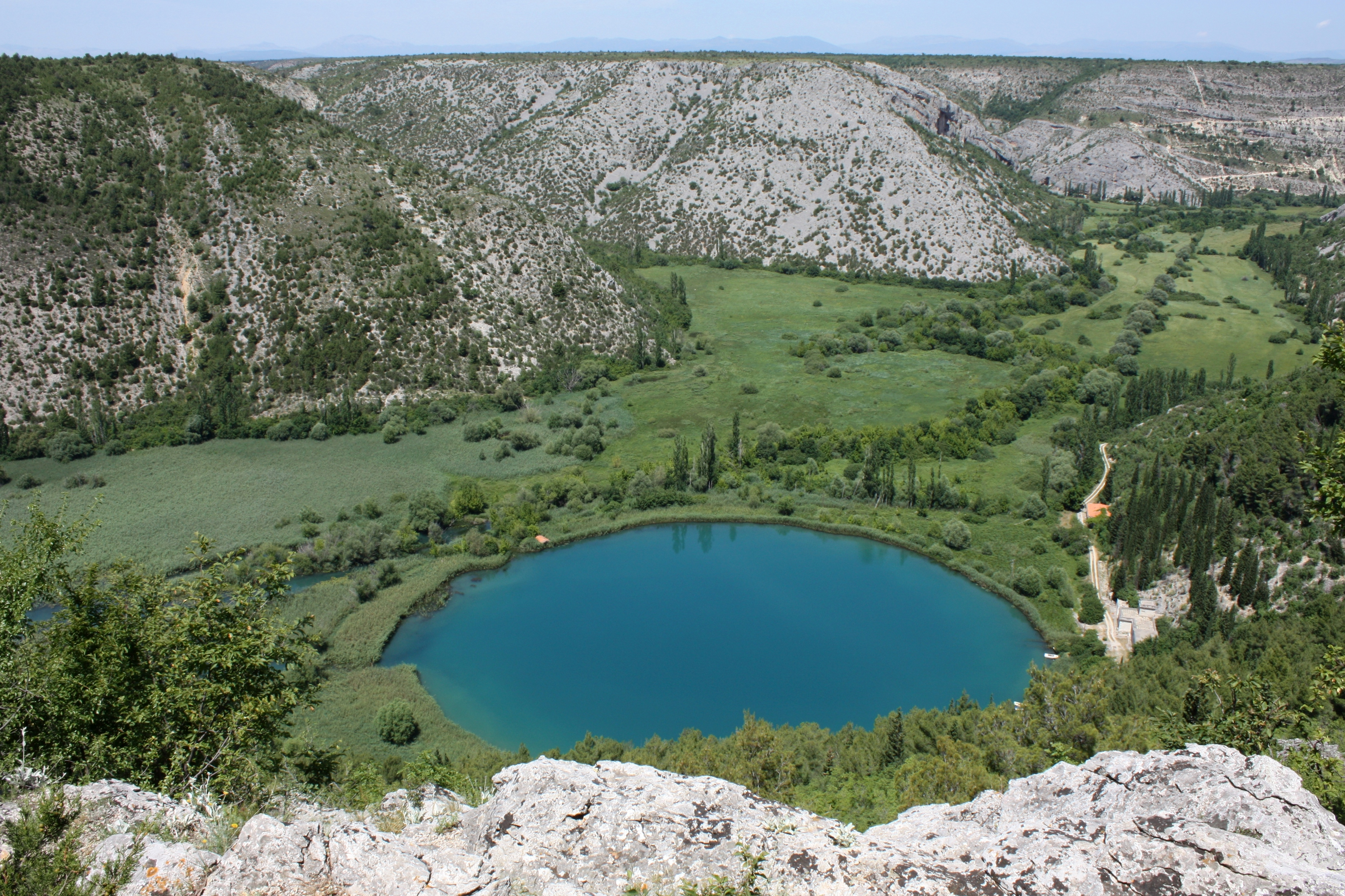 Krka national park - Torak spring This is a a photo of a natural area in Croatia with ID: NP03